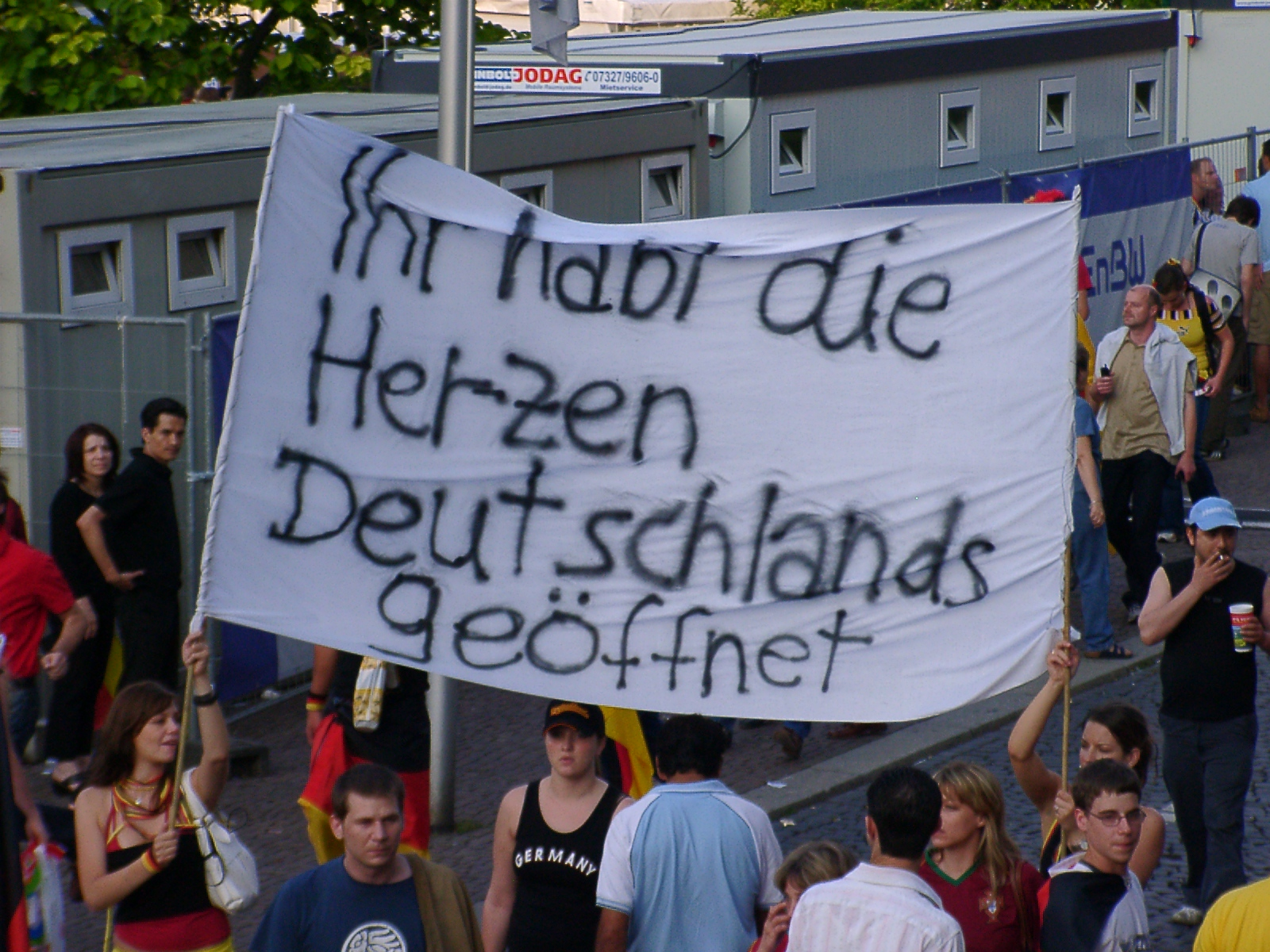 "You have opened Germany's hearts" - banner by German fans in Stuttgart during third place play-off at FIFA World Cup 2006